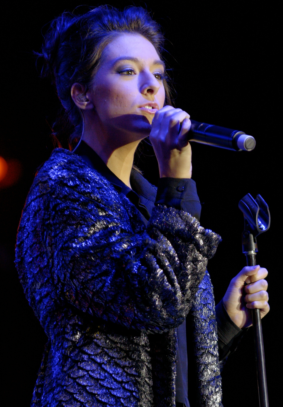 Christina Grimmie performing in November 2014.